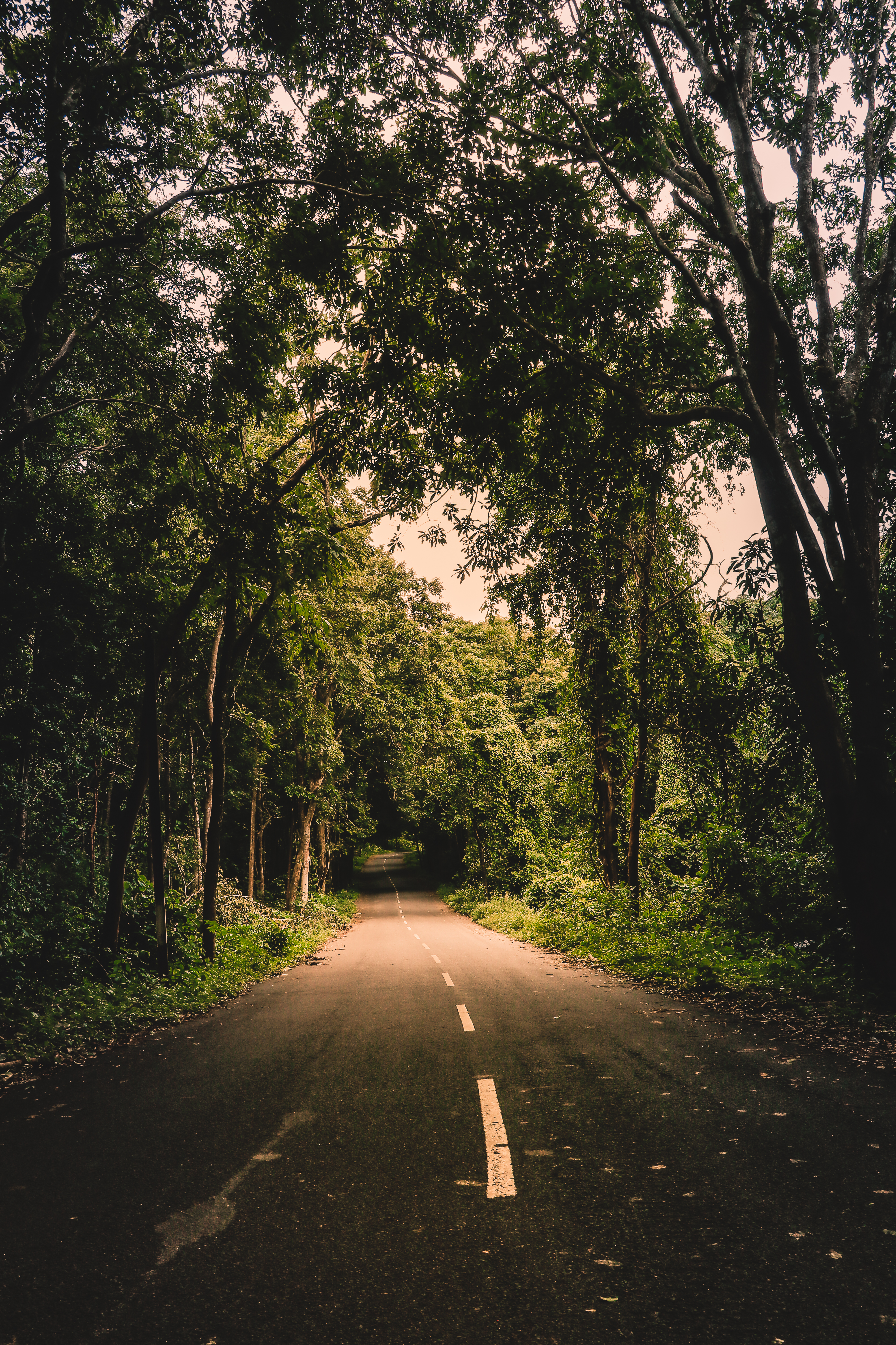 Maredumilli is a village and a Mandal in East Godavari district in the state of Andhra Pradesh in India